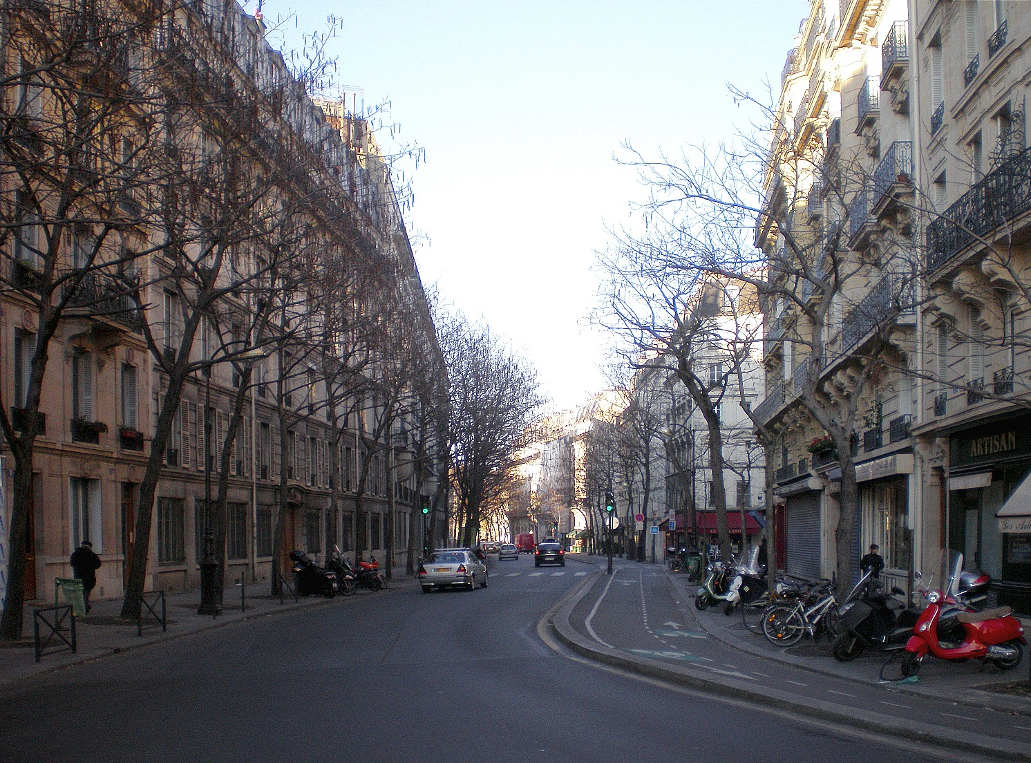 Morland boulevard - Paris